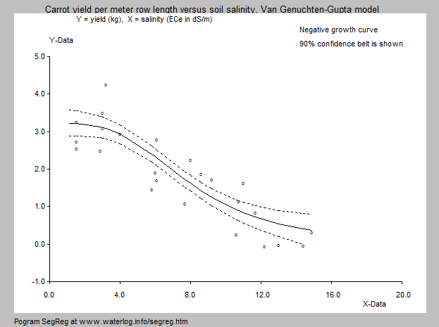 Relation of carrot yield and soil salinity